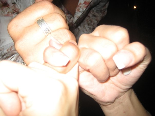 Three-way pinky swear